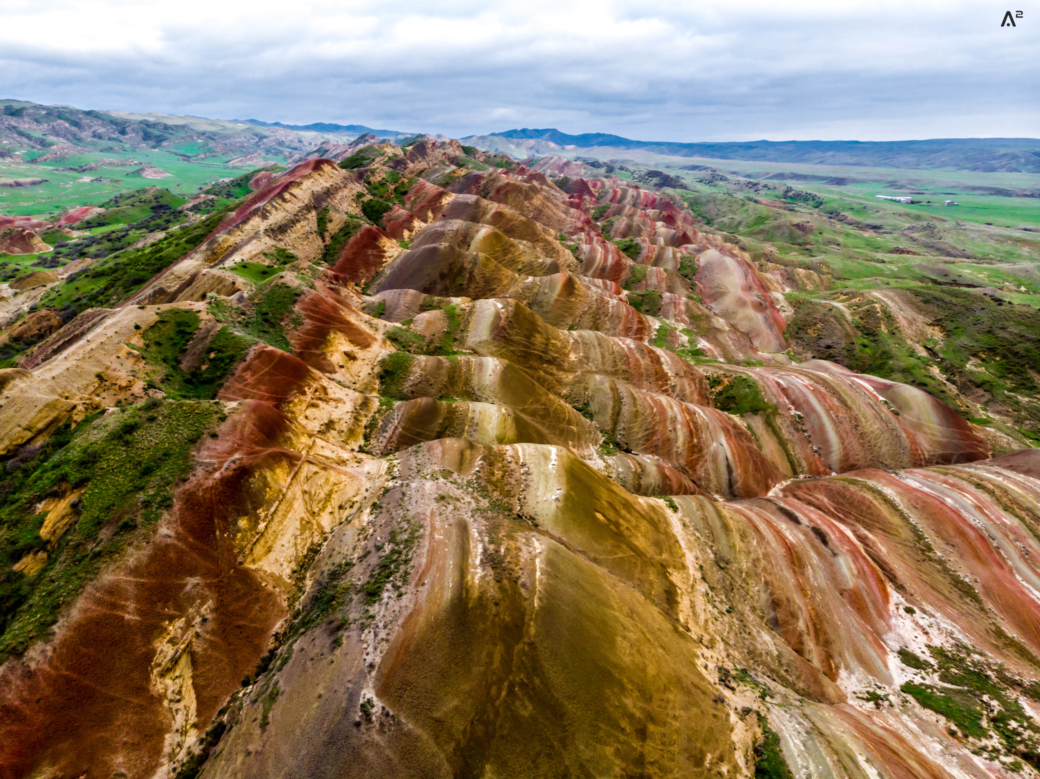 Mravaltskaro painted Deserts, Gardabani, Georgia